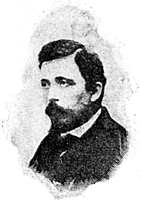 Illustration from book Storia dei Mille by Giuseppe Cesare Abba - Benedetto Cairoli